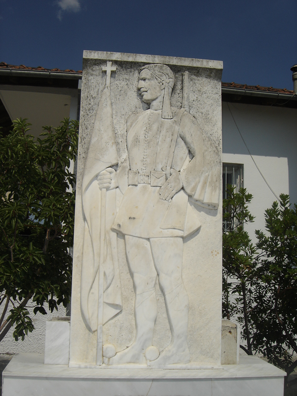 Memorial plaque at Aronas, to commemorate people killed through war